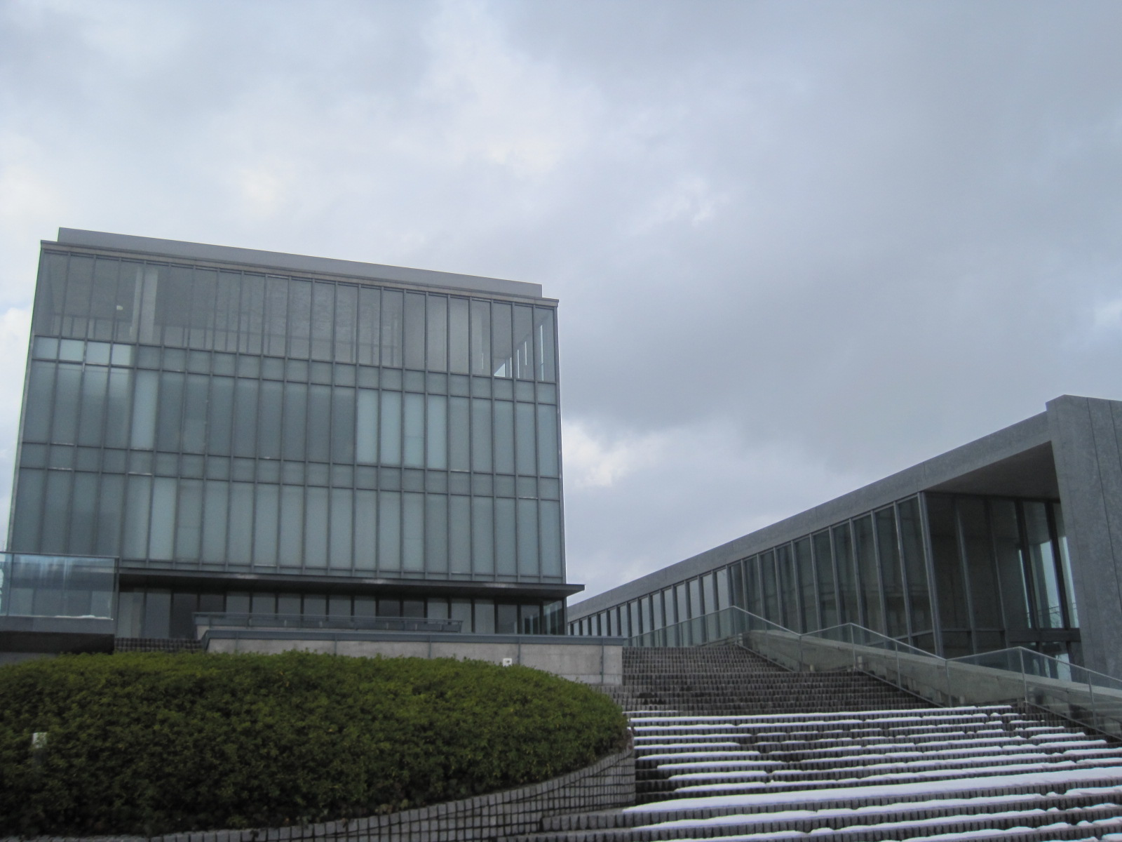 Nishida Kitaro Museum(Kahoku city, Ishikawa prefecture) This museum designed by Tadao Ando.